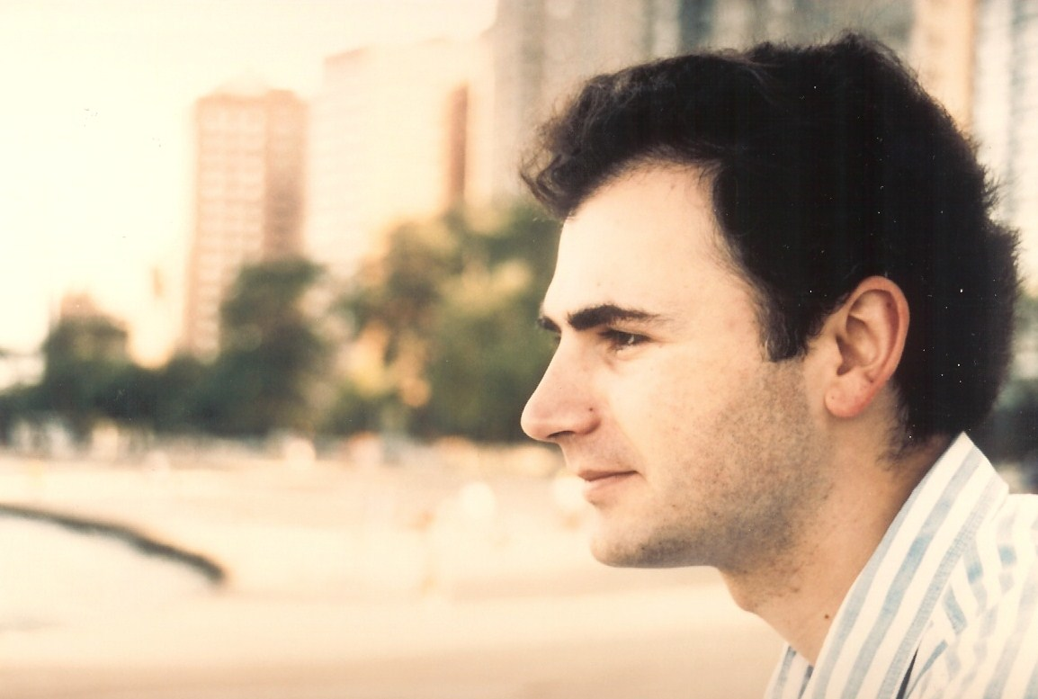 Photograph of Dejan Stojanović taken during the walk by Lake Michigan in Chicago.